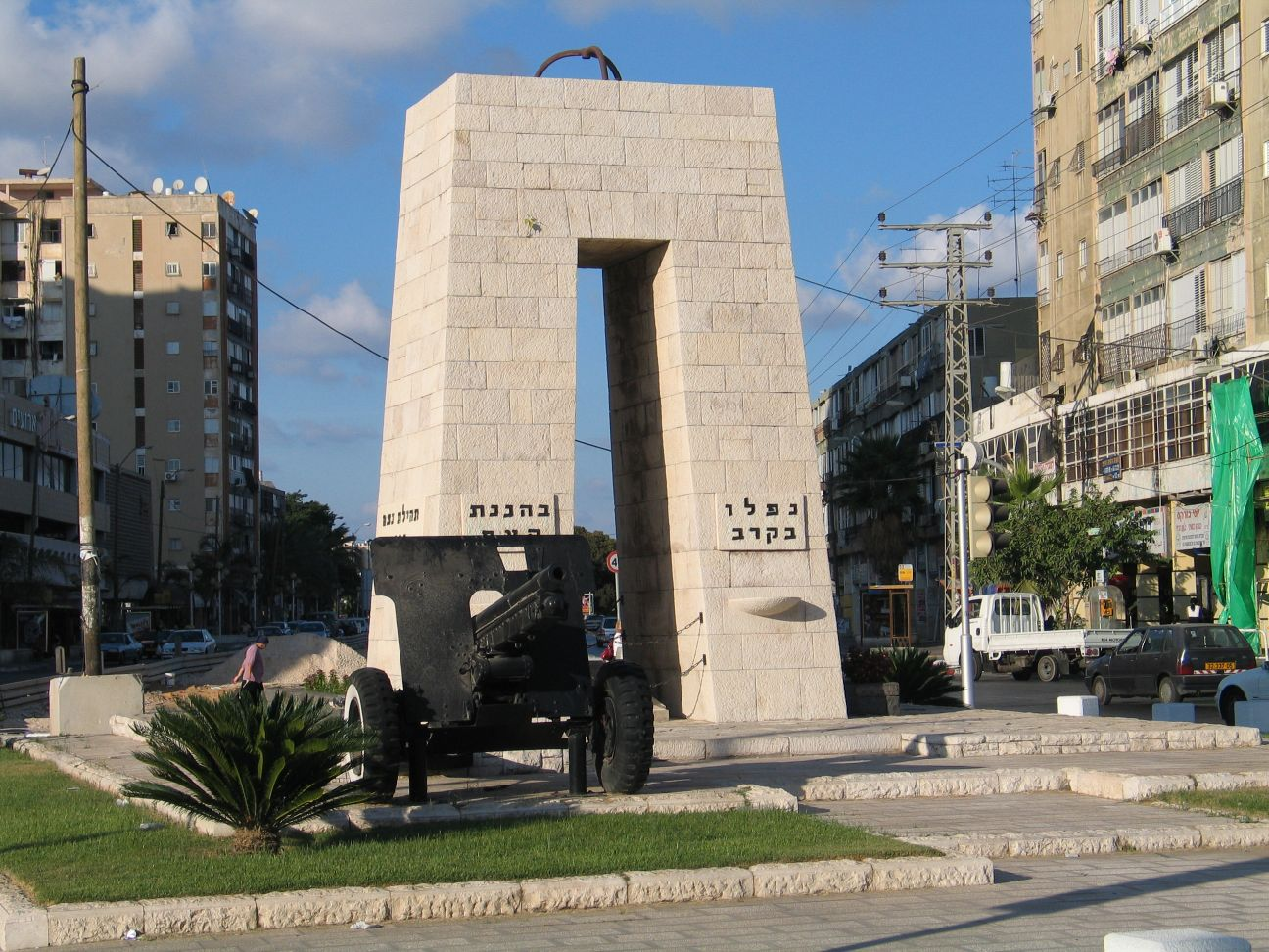 Bat Yam, kikar ha-meginim (defenders square). Photo by me, User:Bukvoed (2005). Some locals also refer to it as kikar ha-matzeva, or just ha-matzeva, meaning the monument.